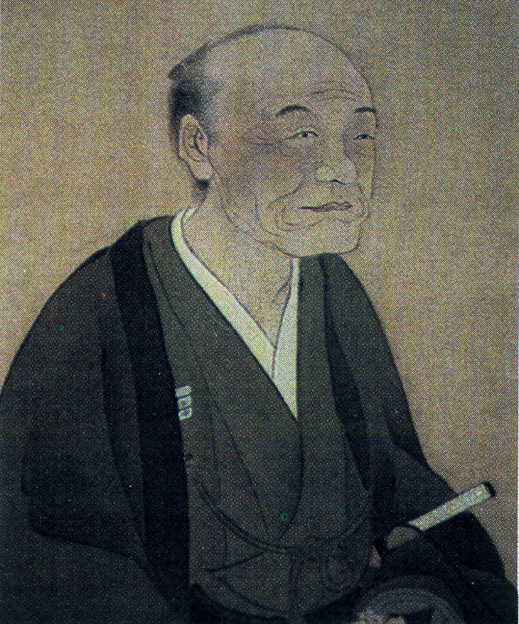 Portrait of the Japanese philosopher Miura Baien